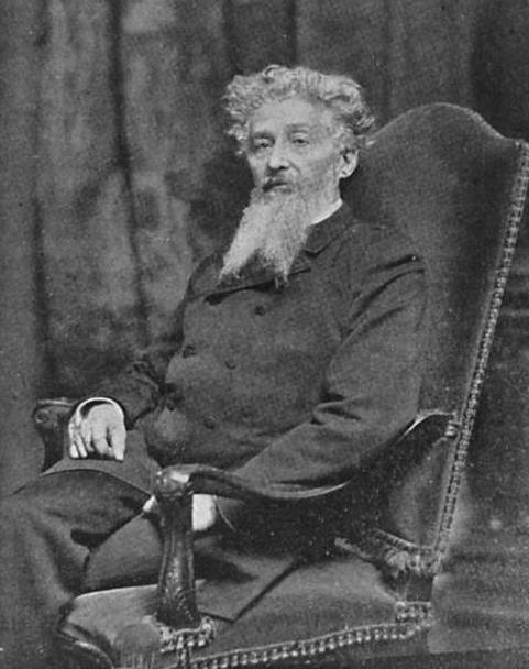 Ramón Emeterio Betances Patriota Puertorriqueño. Sitting in Chair Photograph